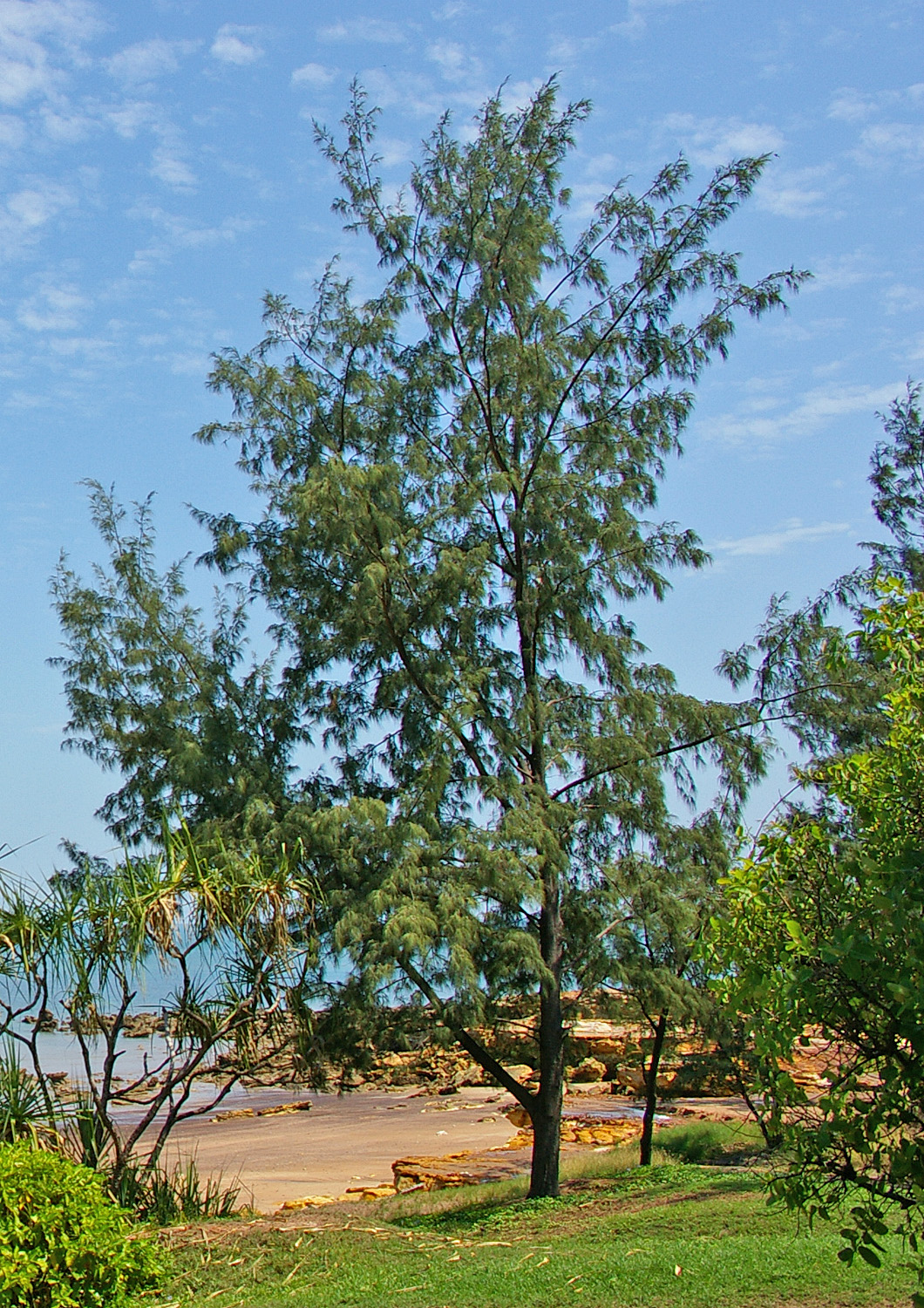 Coastal Casuarina tree (Casuarina equisetifolia). Darwin, Northern Territory